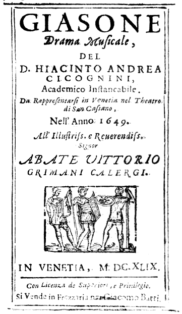 Francsco Cavalli - Giasone - title page from the libretto - Venice 1649